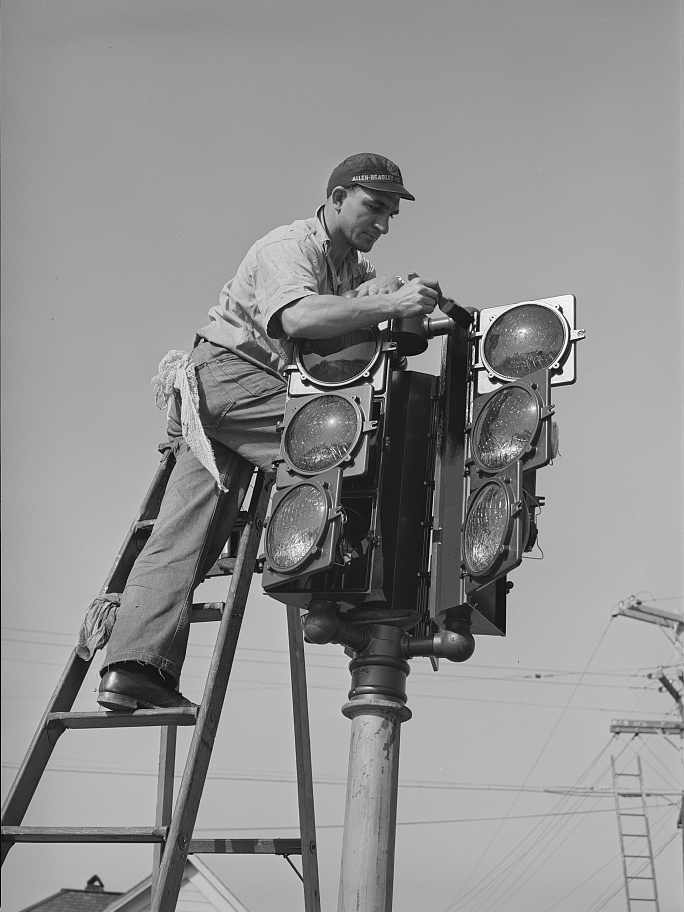 Installation of a traffic signal in San Diego, California.